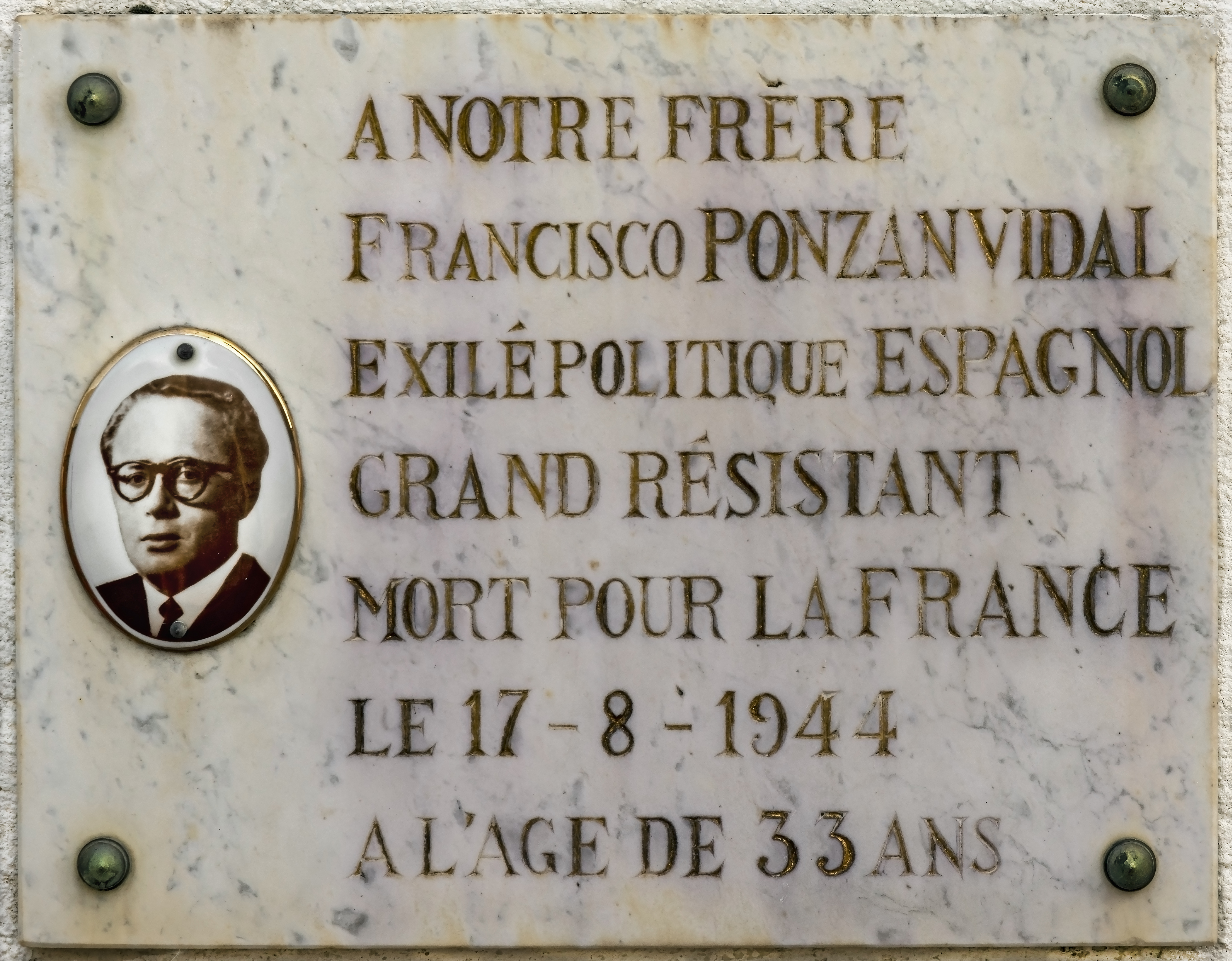 Commemorative plaque of Francisco Ponzan Vidal at the Buzet-sur-Tarn memorial